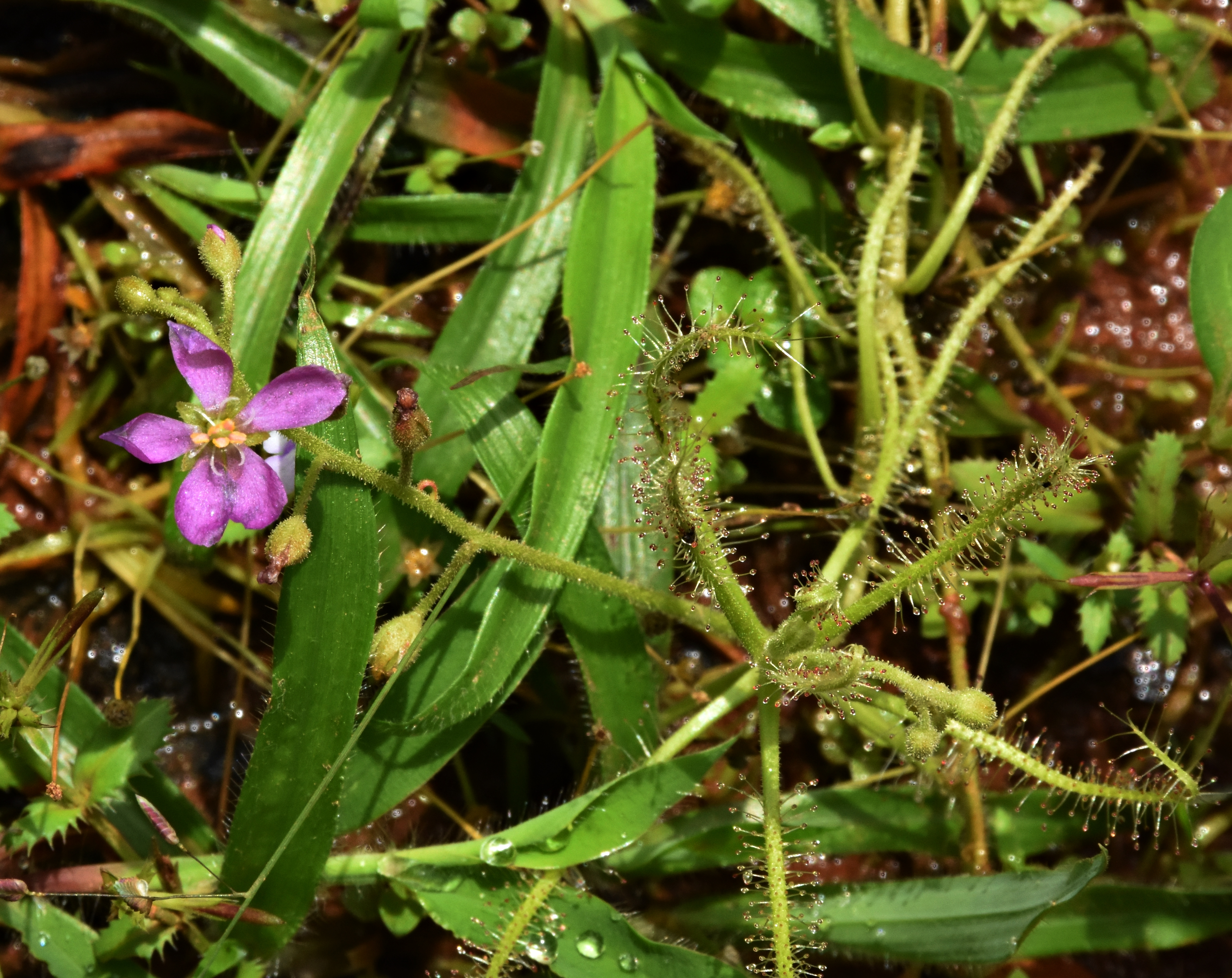 Drosera indica is an insectivorous plant seen in wet laterite